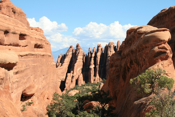 Fines at Arches National Park